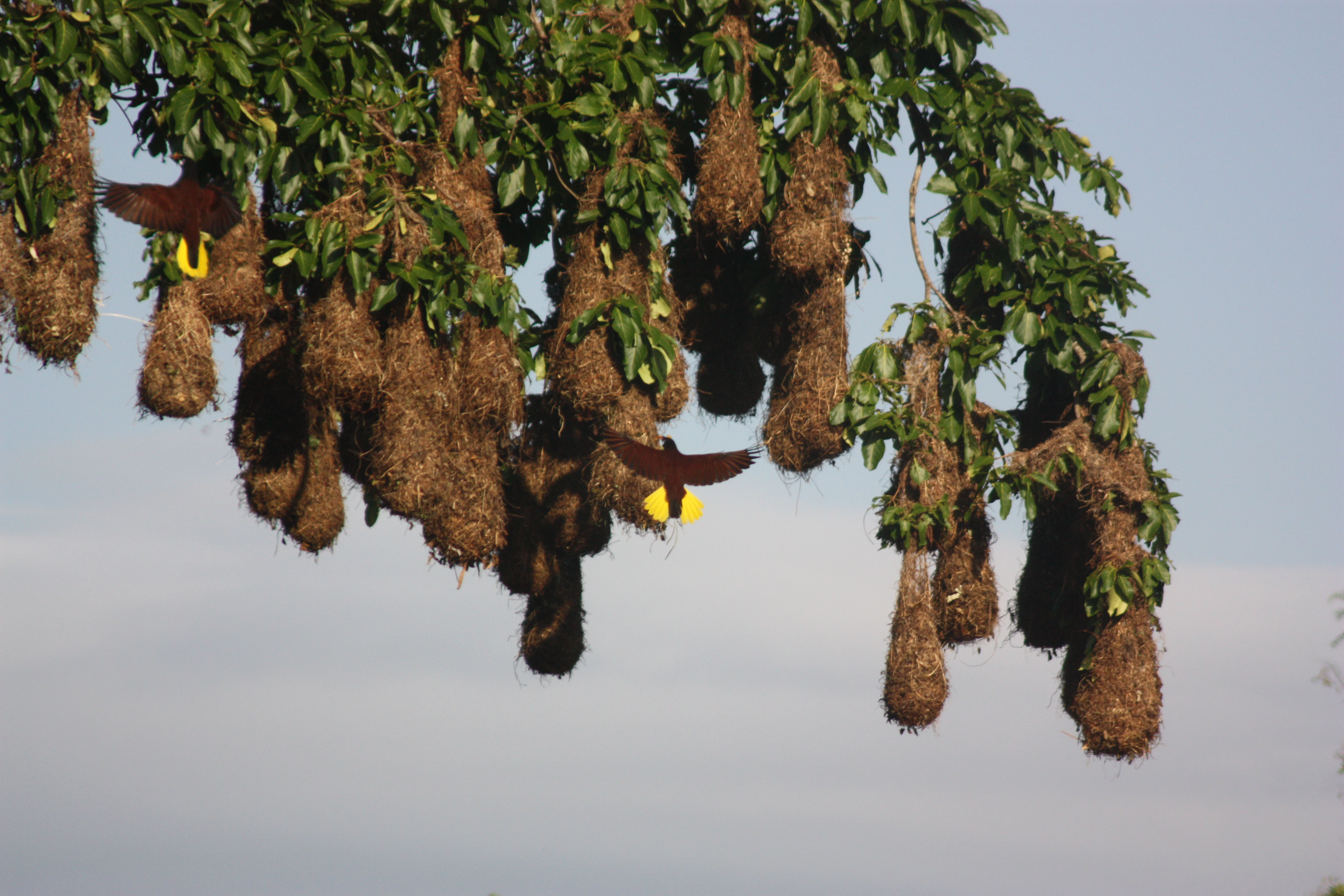 Montezuma Oropendola (Psarocolius Montezuma) in farmland near Quesada, Costa Rica